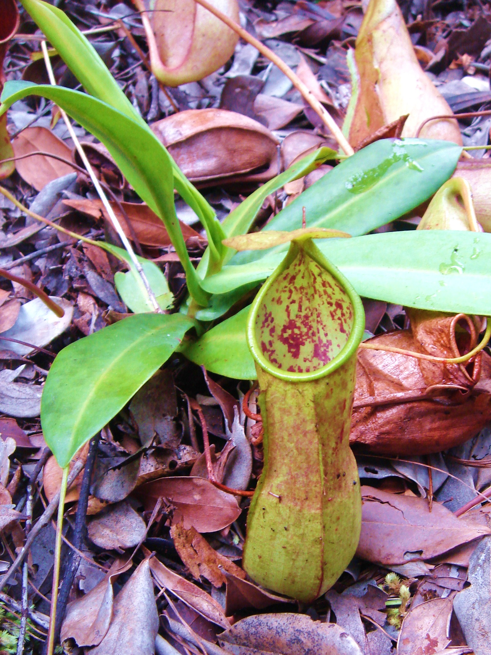 Nepenthes thai with lower pitcher, Thailand